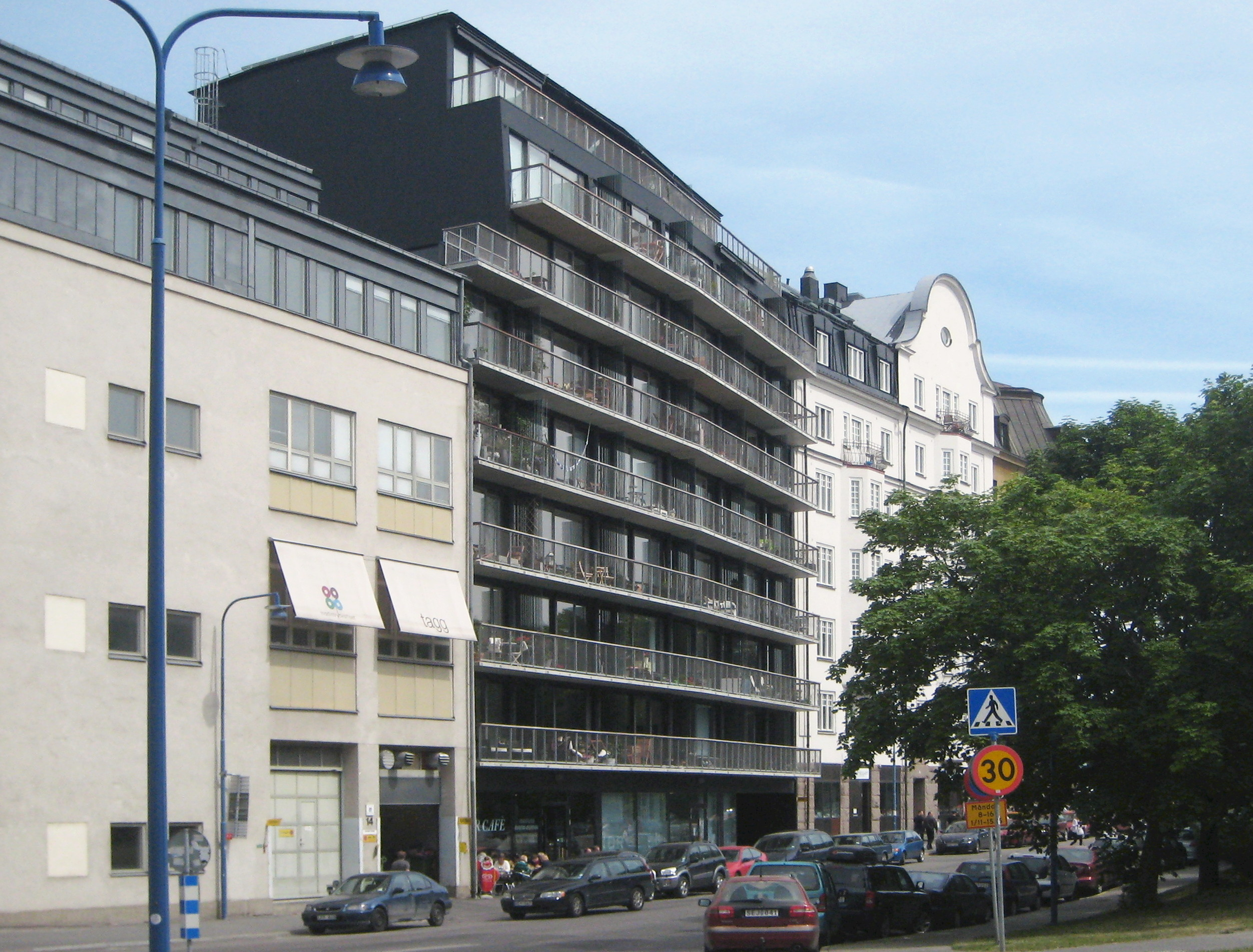 Nytt bostadshus (2009) i kvarteret Stora Katrineberg ritat av arkitekterna Kjellander och Sjöberg.